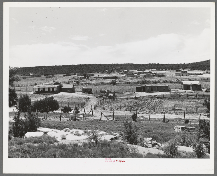 Chilili, New Mexico in 1940. Photograph taken by FSA photographer Russell Lee